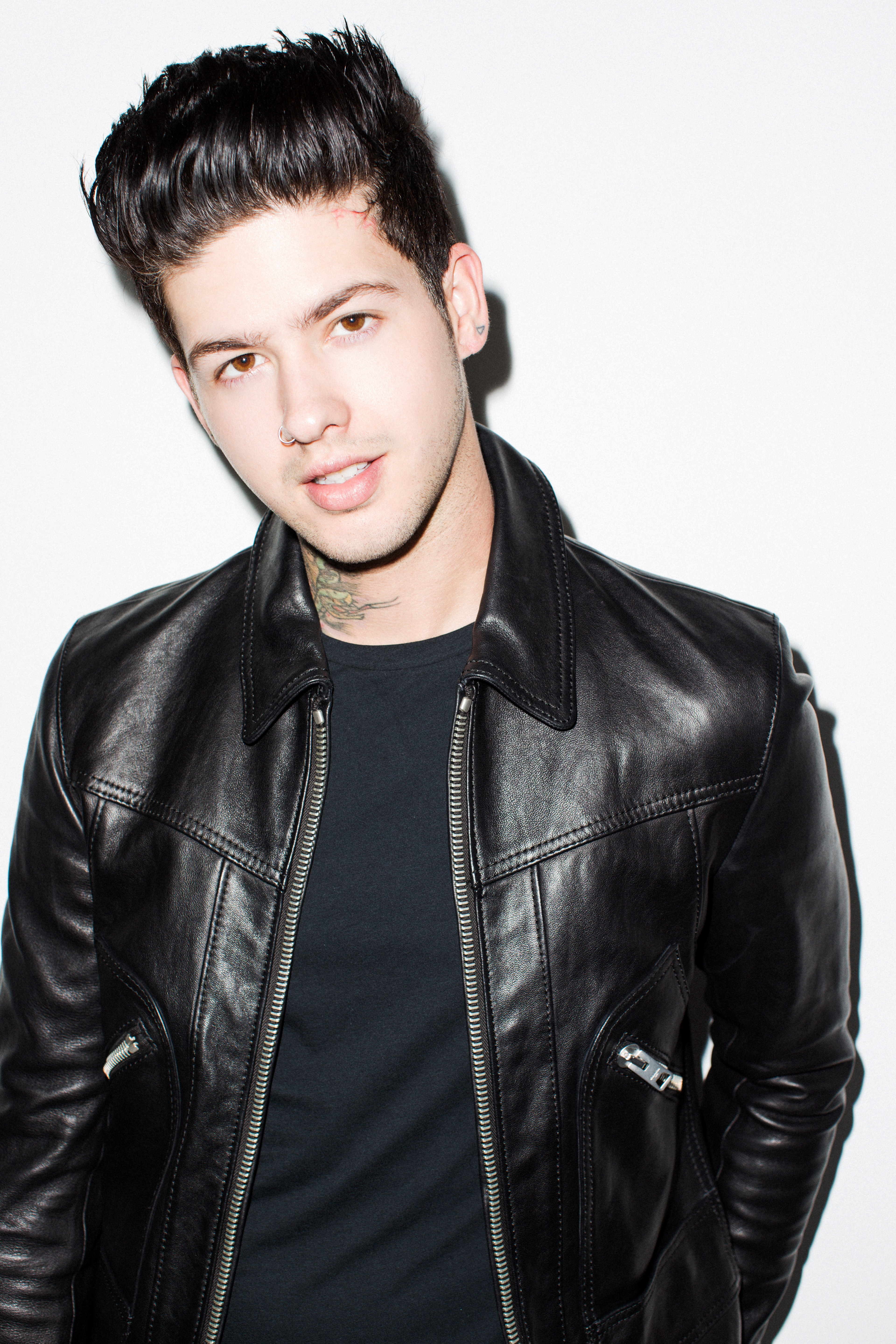 Photograph of Travis Mills